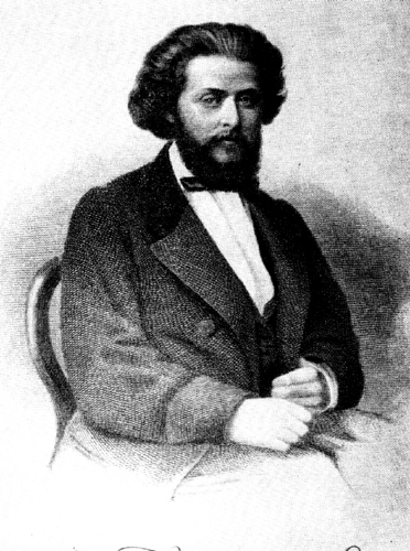 19th century etching of Nikolay Pomyalovsky